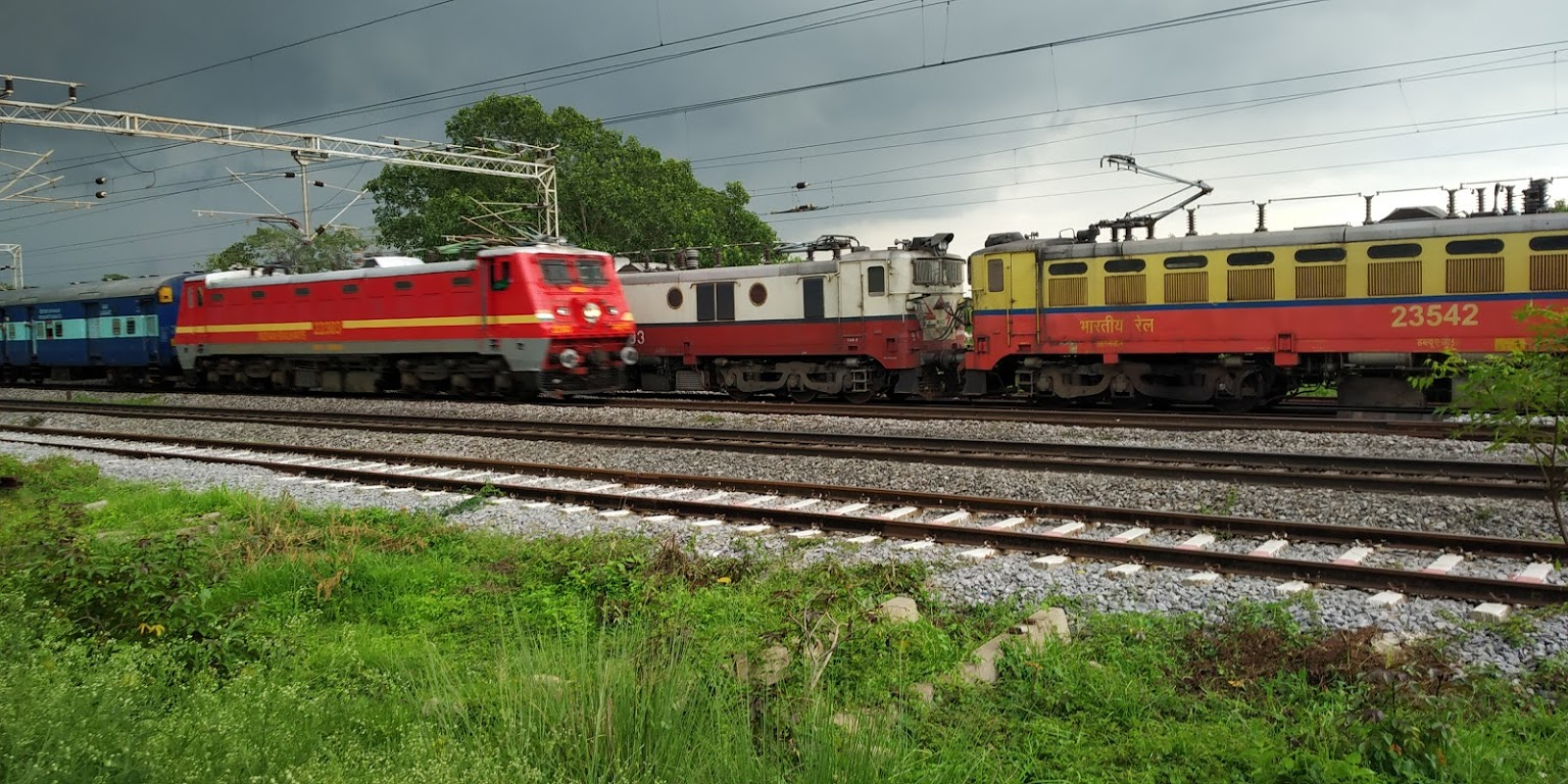 This is the Picture of Surla Road railway station